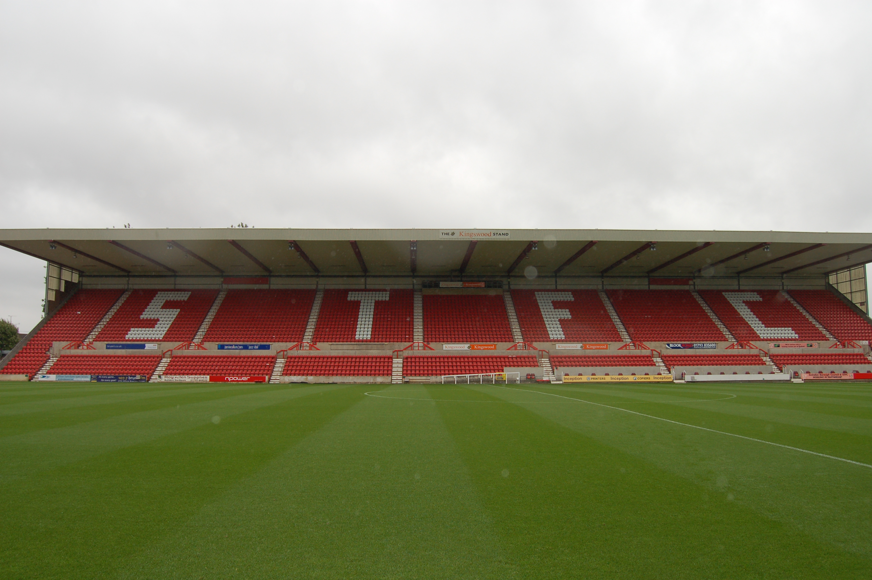 The Kingswood Stand at the County Ground home of Swindon Town FC